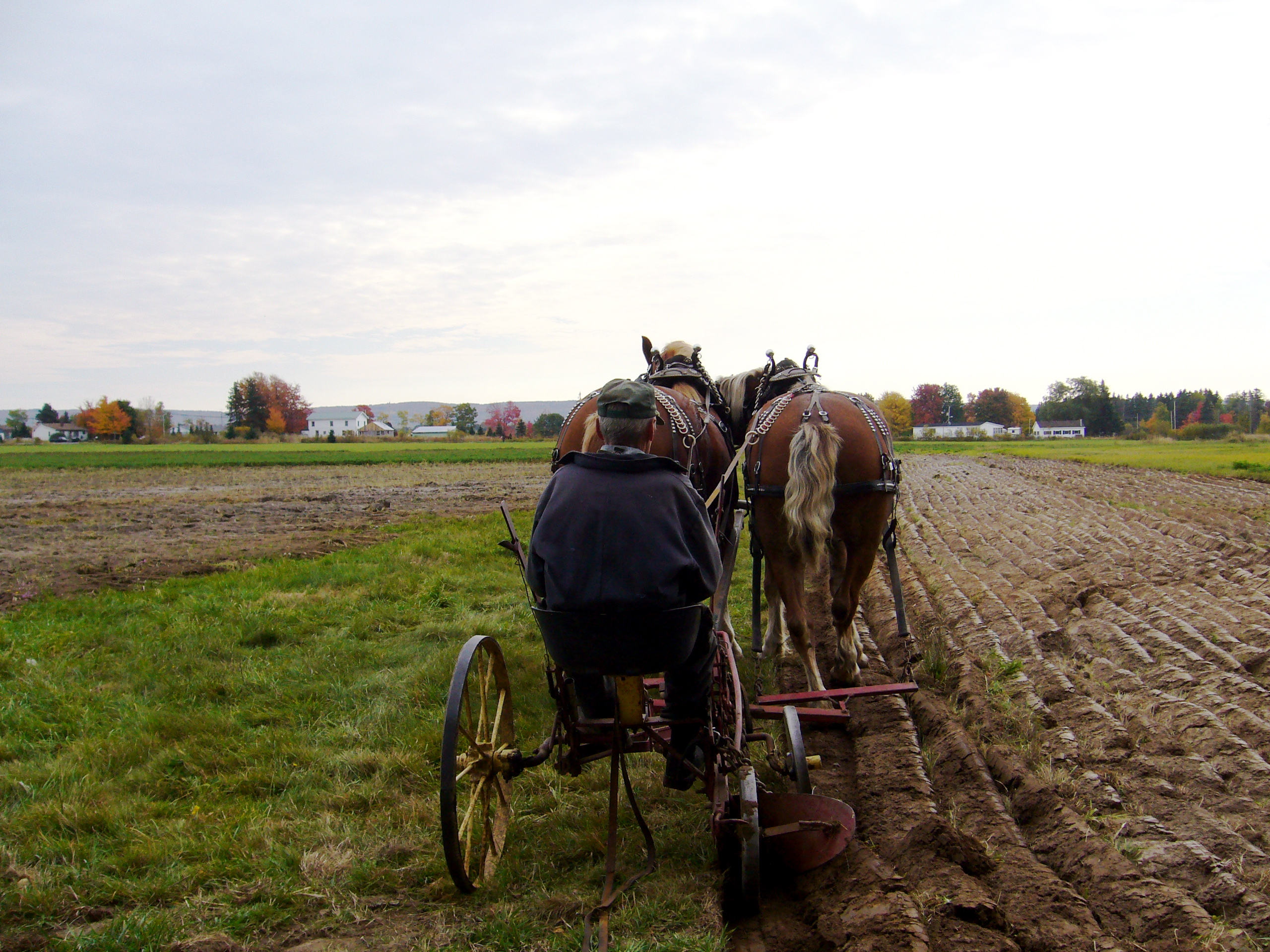 Kate and Lady plough one furrow at a time